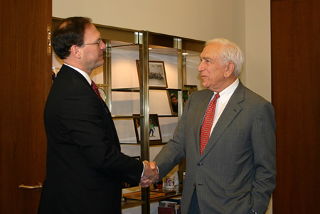 Senator Lautenberg meets with Supreme Court nominee Samuel Alito in his office in Washington D.C. (November 10, 2005)